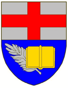 Coat of Arms of Heddert